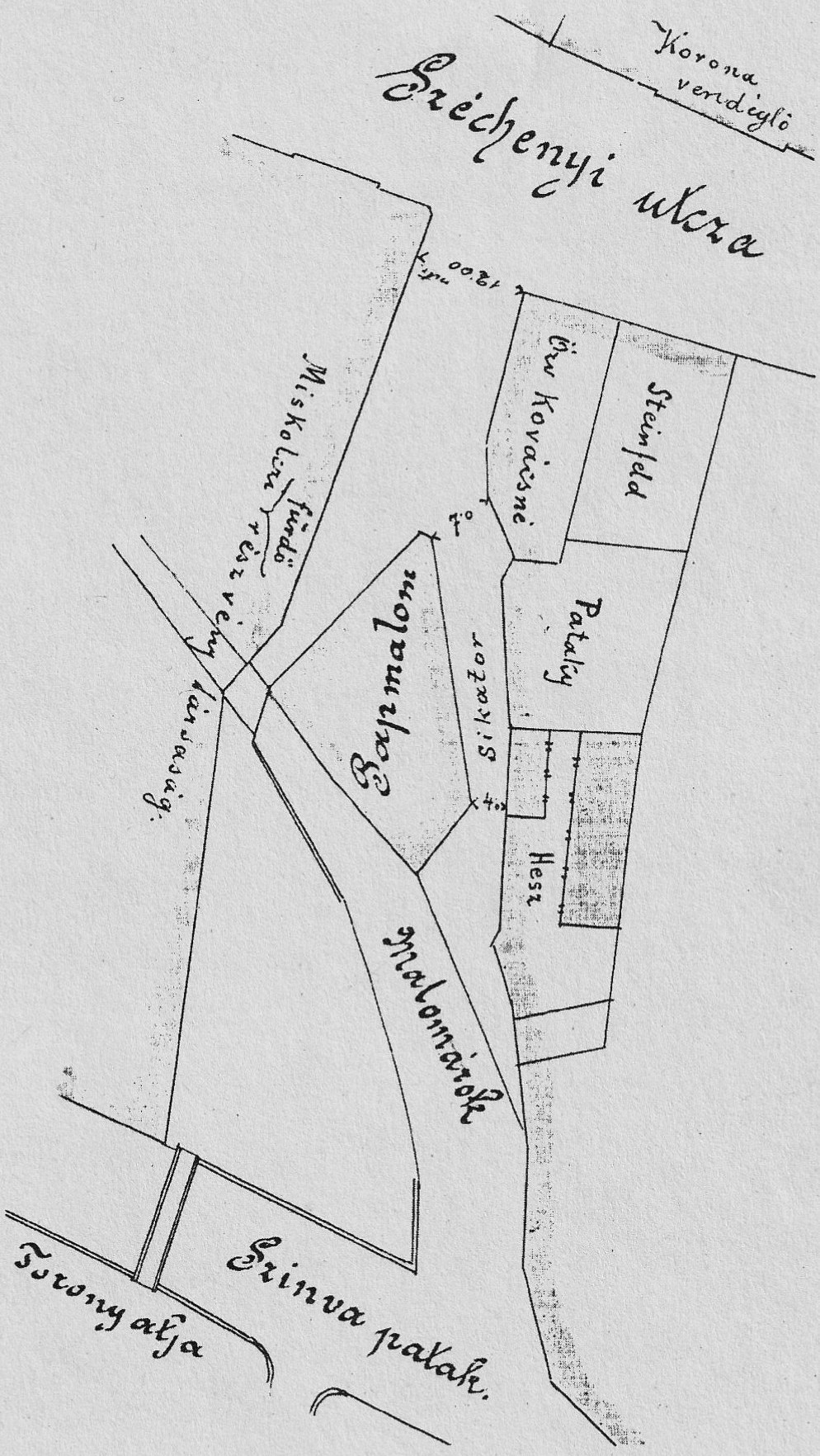 Location of Pap mill Miskolc 1890